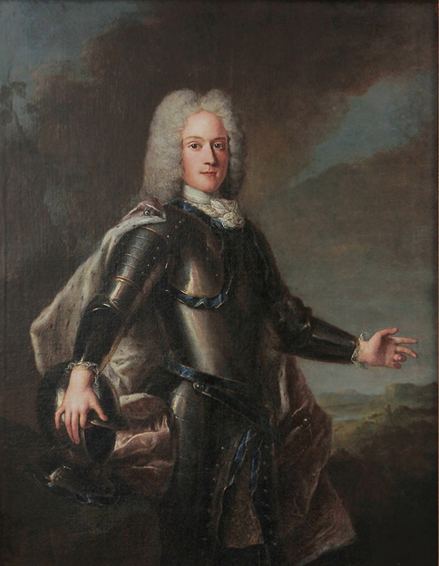 Alexandr Borisovich Kurakin (1697-1749)